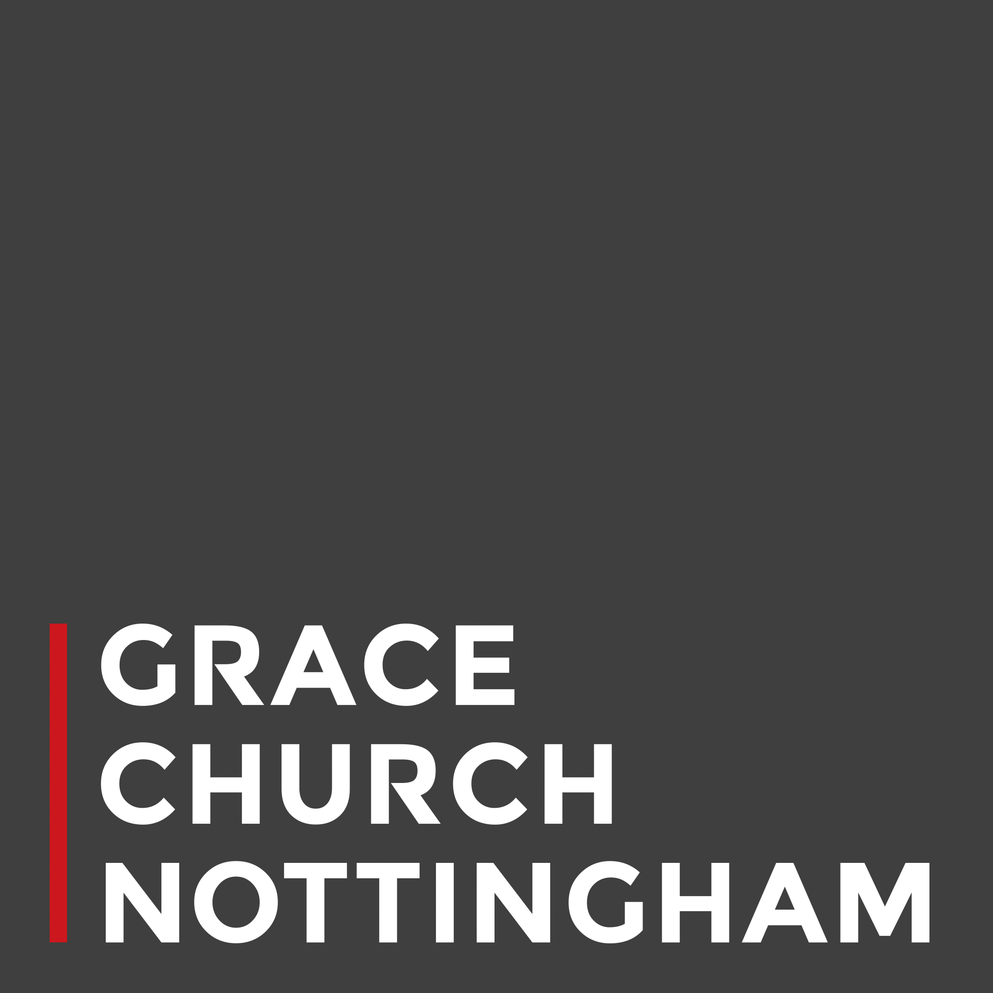 The Grace Church Nottingham logo